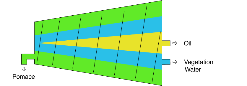 Diagram of the workings of an industrial olive oil decanter. The three phases are separated according to their densities.